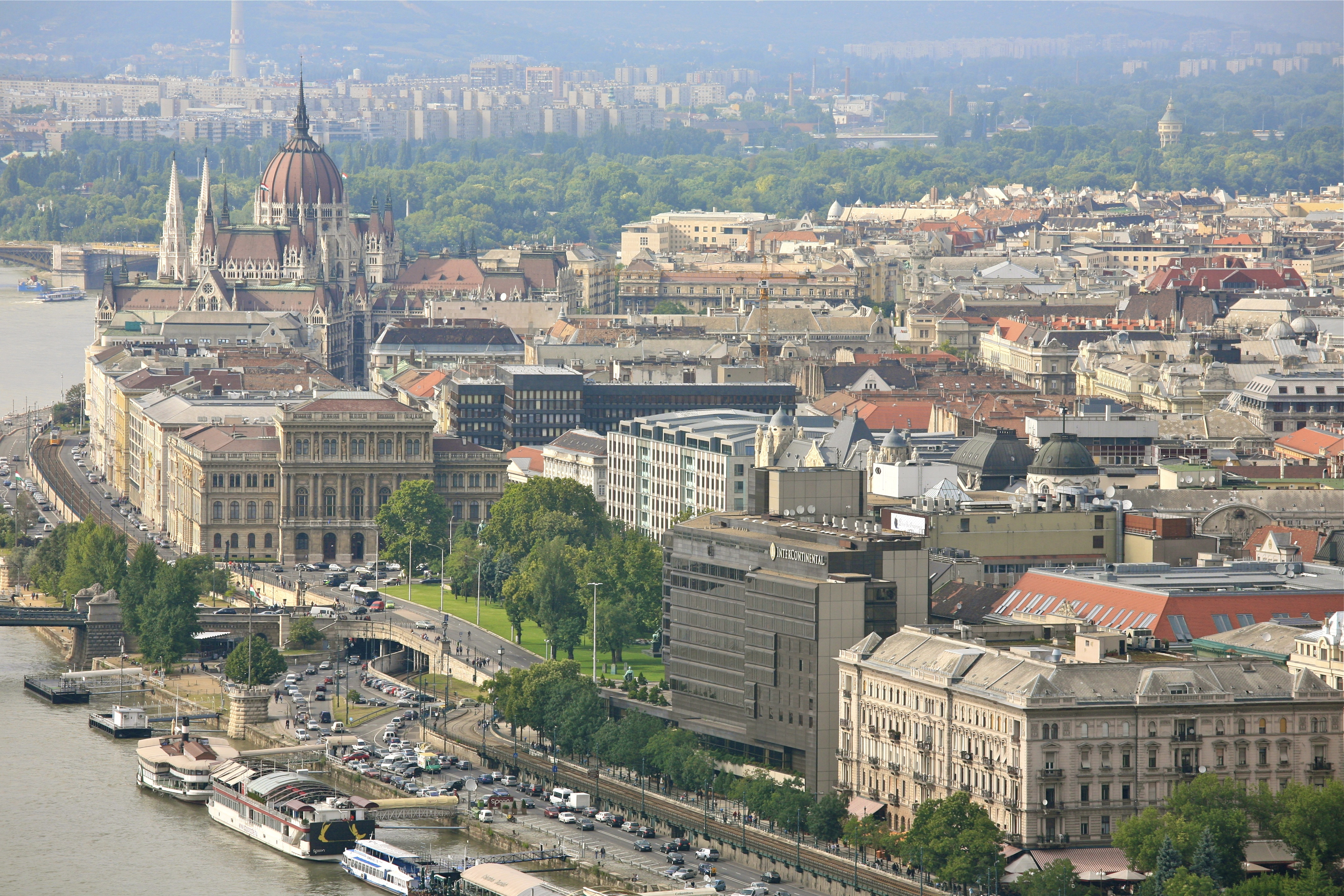 Budapest and the Danube